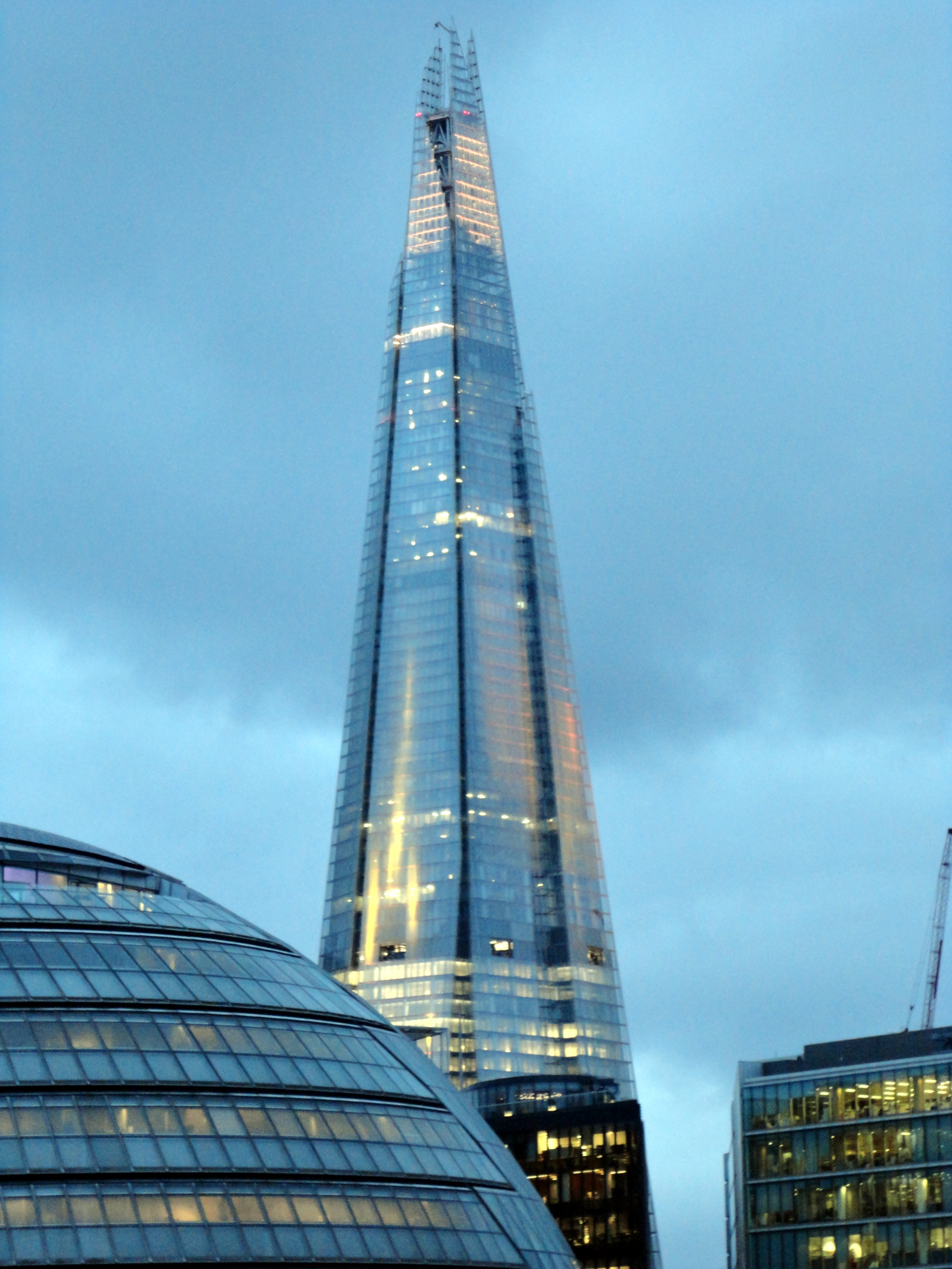 Shard London Bridge